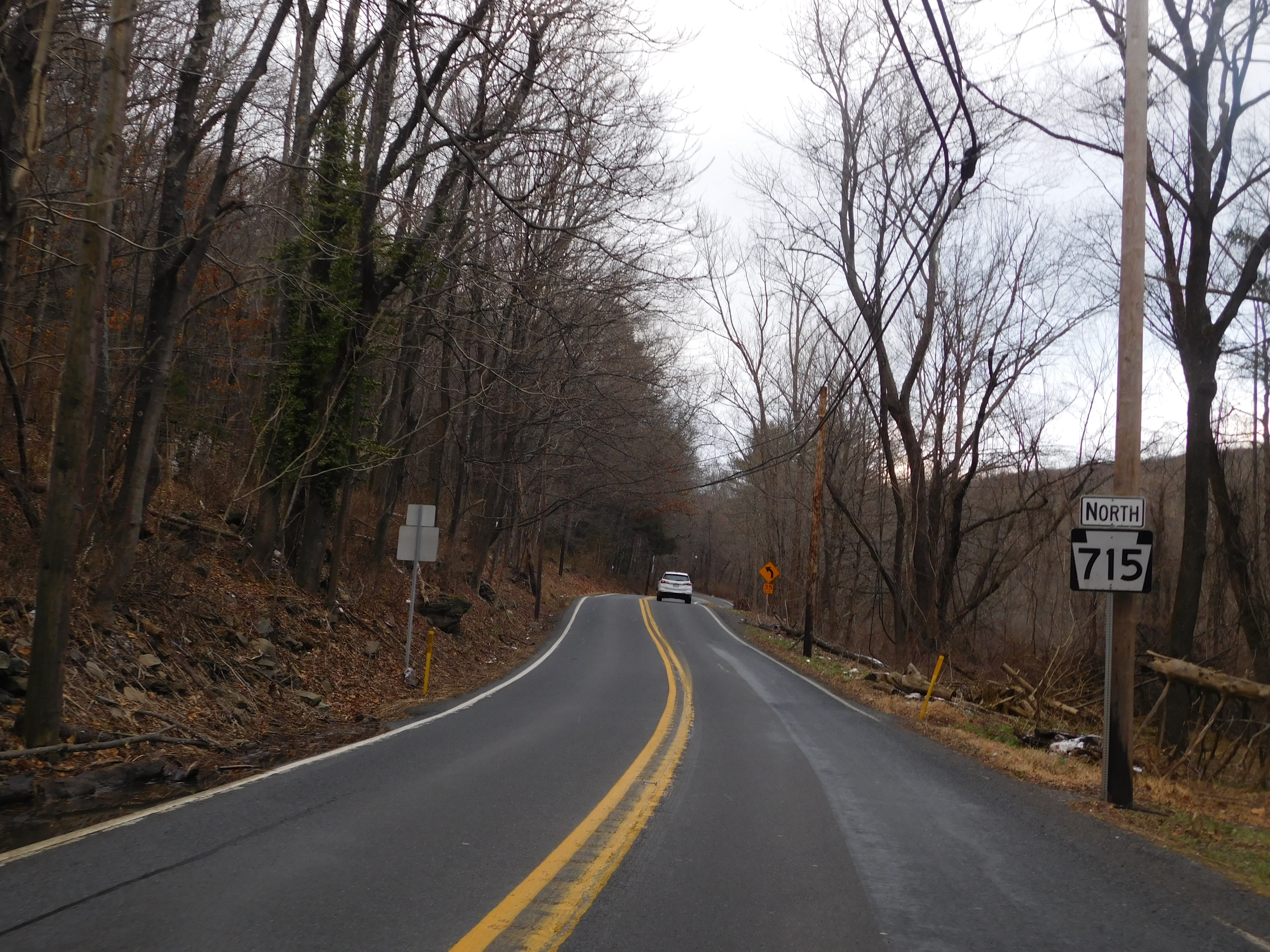 Pennsylvania Route 715 northbound in Tannersville, Pennsylvania.